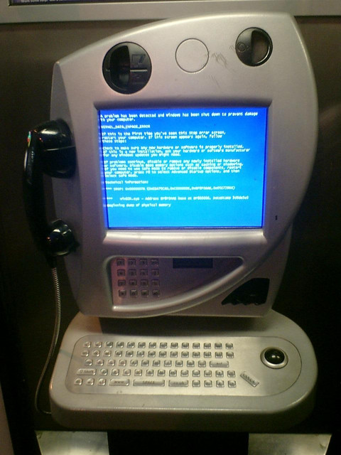 Blue Screen of Death on a public payphone